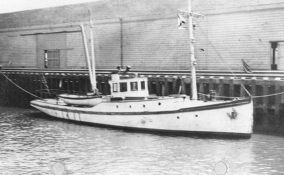 Photo #: NH 83803 California (American Motor Boat, 1910) In port, probably at San Francisco, California, prior to her World War I era Naval service. This pilot boat, owned by the San Francisco Bar Pilots' Association, was USS California (SP-647) and USS SP-647 in 1917-1918. U.S. Naval Historical Center Photograph.